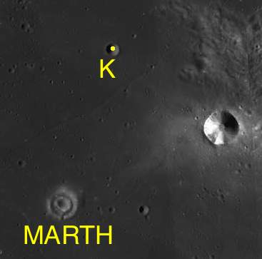 Part of the chart LAC-94 used for the presentation